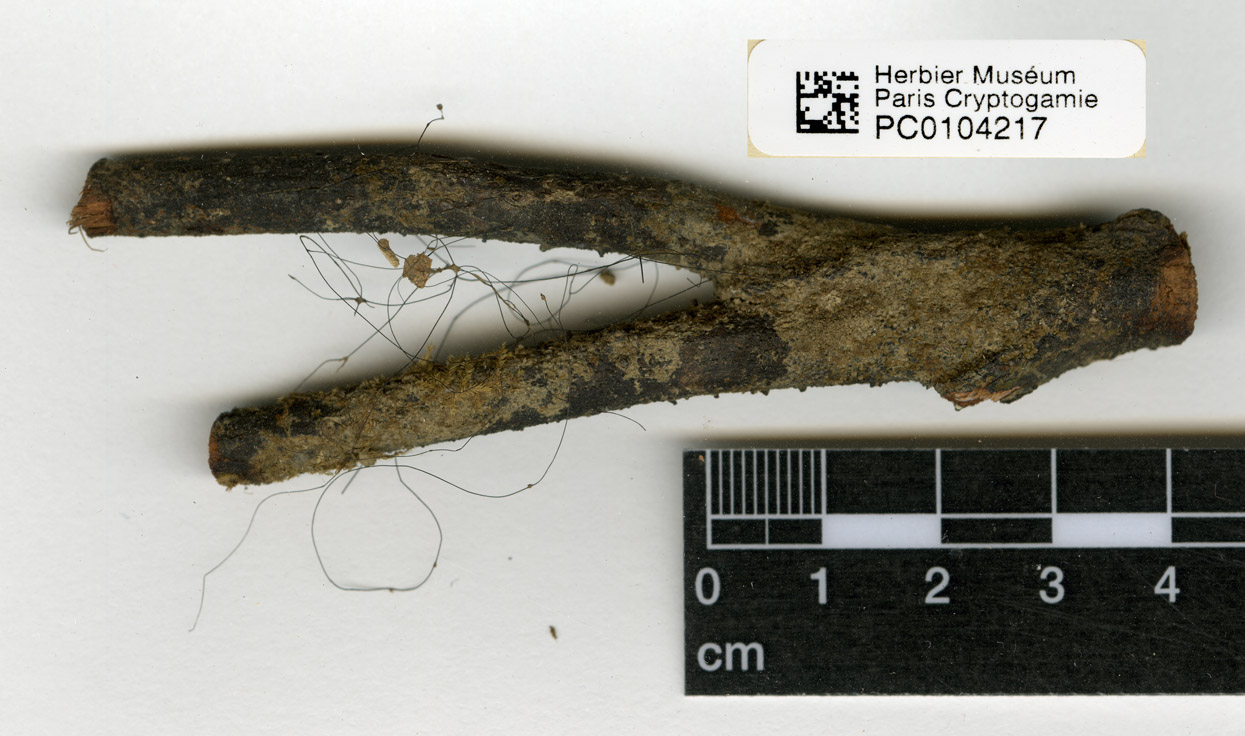 Cololejeunea chittagongensis, type at Muséum national d’histoire naturelle, Paris